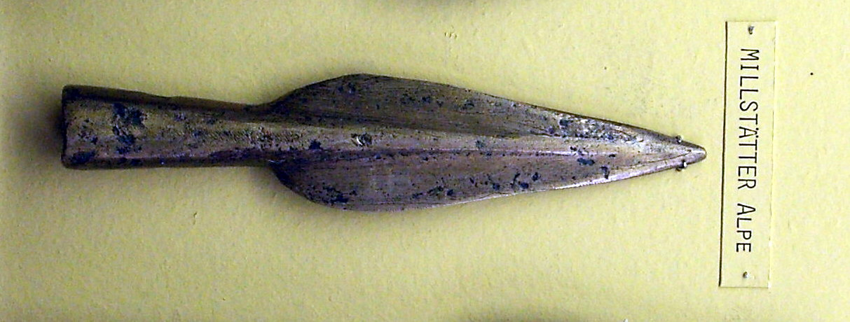 Spear point from the time the Urnfield culture (1400 BC ~ 750.) and the Hallstatt culture (750 ~ 250 BC) in the Provincial Museum in Carinthia / Austria / EU.